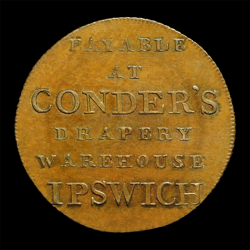 James Conder's own token, produced to advertise his drapery business. Conder Tokens are named after James Conder, who was a coin collector and author, possessing perhaps the finest collection of this 18th Century British Provincial coinage.